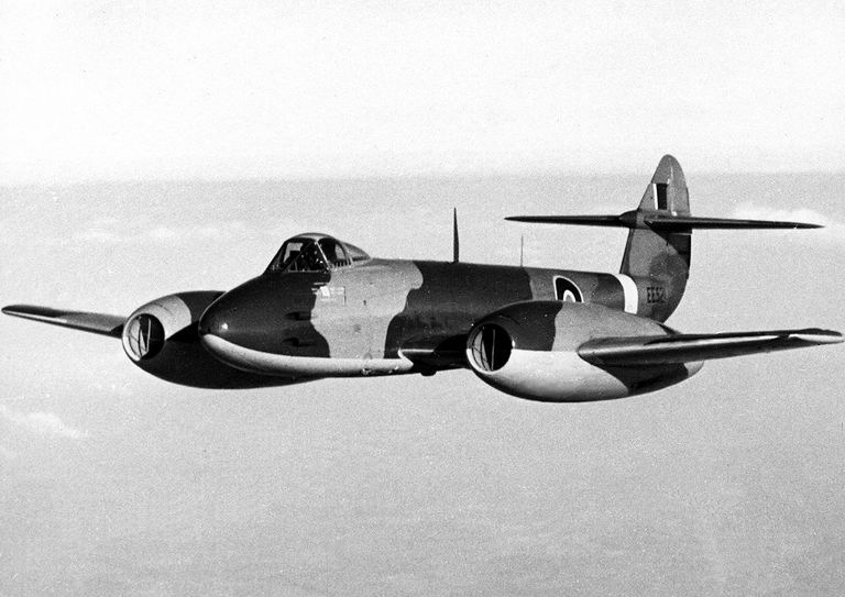 Gloster Meteor in level flight